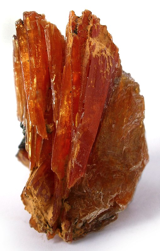 Leiteite, Ludlockite Locality: Tsumeb Mine (Tsumcorp Mine), Tsumeb, Otjikoto (Oshikoto) Region, Namibia (Locality at ) Size: thumbnail, 2.8 x 1.8 x 1.2 cm Ludlockite in Leiteite I have simply never seen another piece like this. It is clearly Leiteite in form, and yet it has a bright umber-red color to it! The cause is due to minute dispersed inclusions of Ludlockite. The piece is unique and stunning, as you can see. (TYPE LOCALITY for BOTH SPECIES)